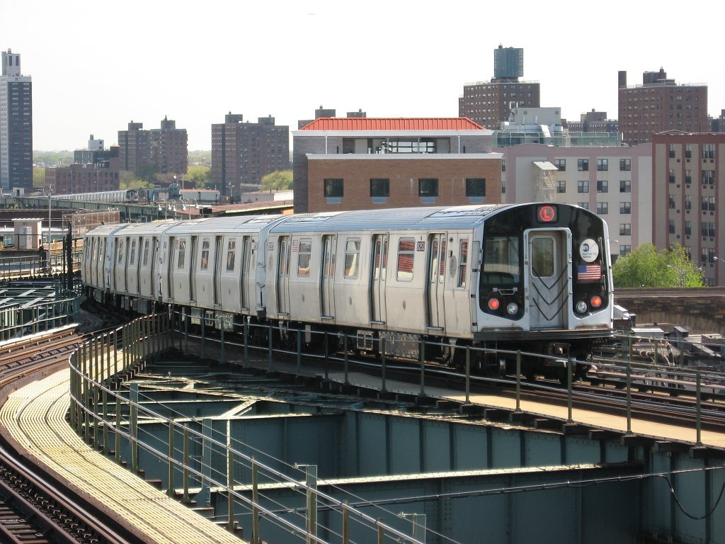 An R143 L train leaves the Broadway Junction station bound for Rockaway Parkway.